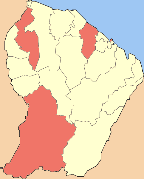 This is the current Covid 19 spread across French Guiana as of 7 April 2020. Please note that there are no counts known per district therefore the red areas indicate that there is more than one infection.